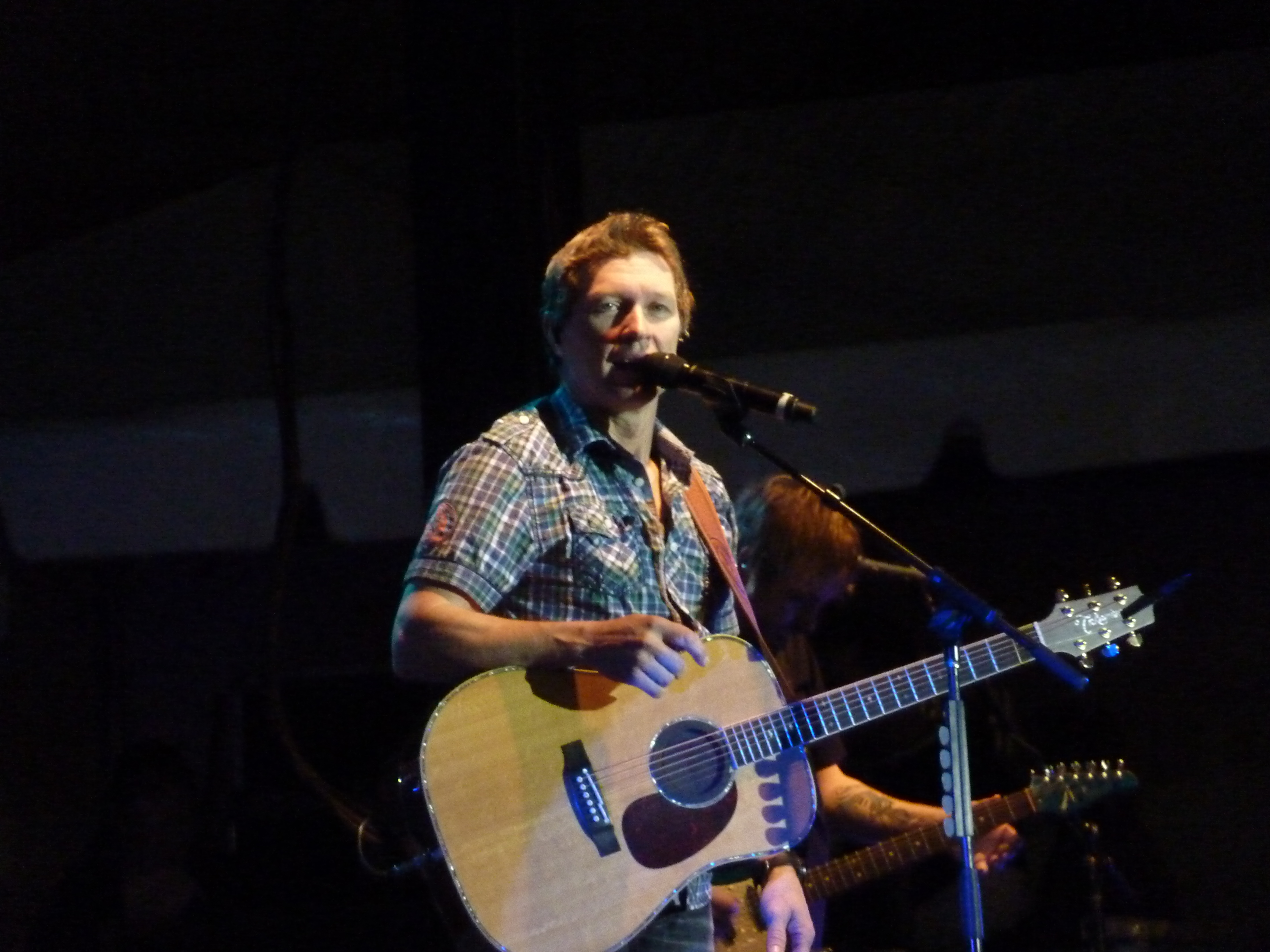 Craig Morgan performing in Ft. Myers Florida